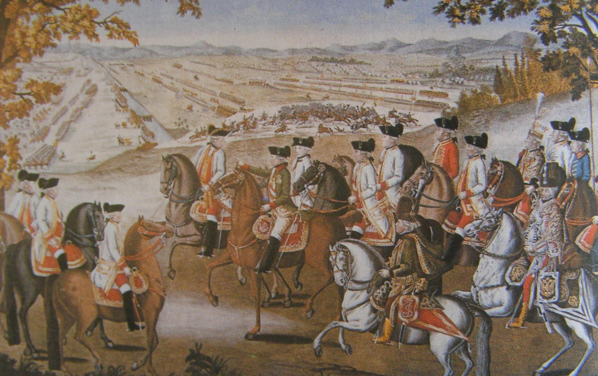 Joseph II, Emperor of Austria and his soldiers